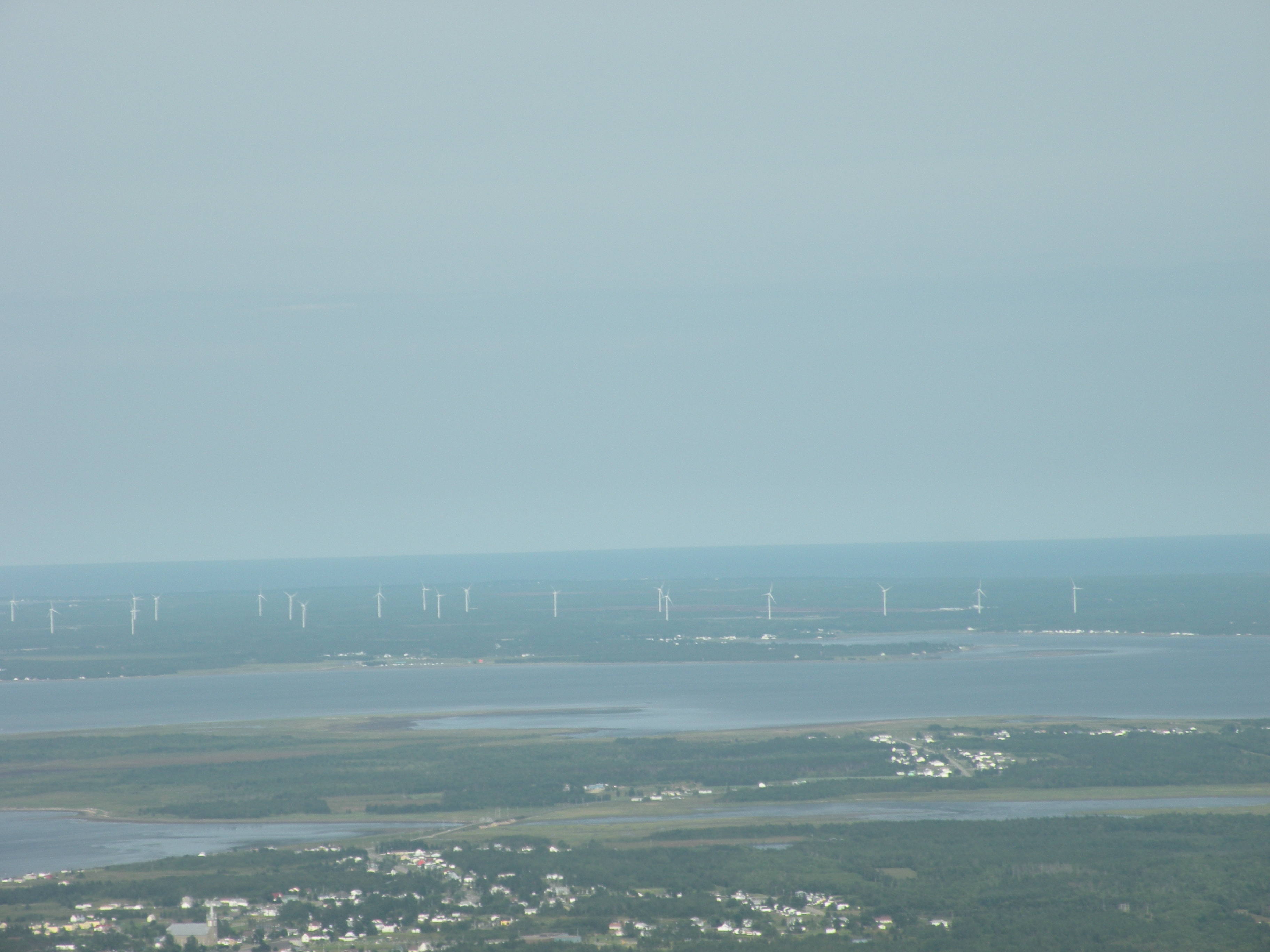 Aerial view of Pokesudie and Lamèque, New Brunswick.